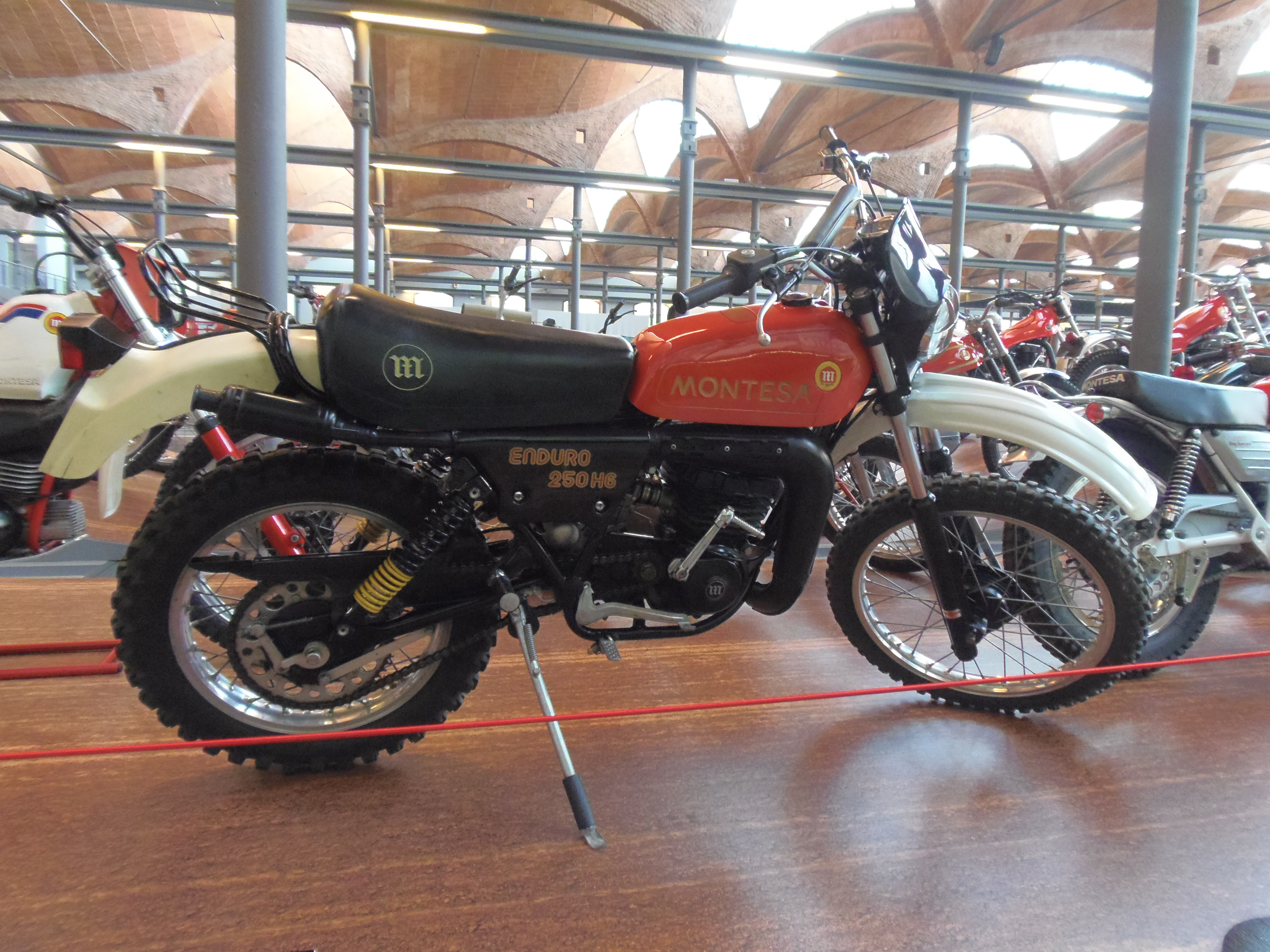 Montesa Enduro 250 H6, 1977